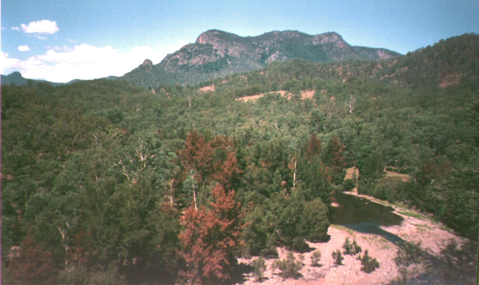 Paradise Rocks and Apsley R. from The Terrace, Riverside, Oxley Wild Rivers National Park, Walcha, NSW